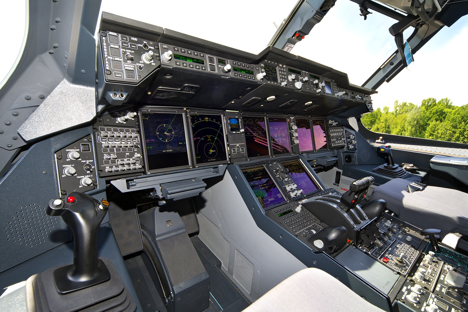 Airbus A400M cockpit ILA2014